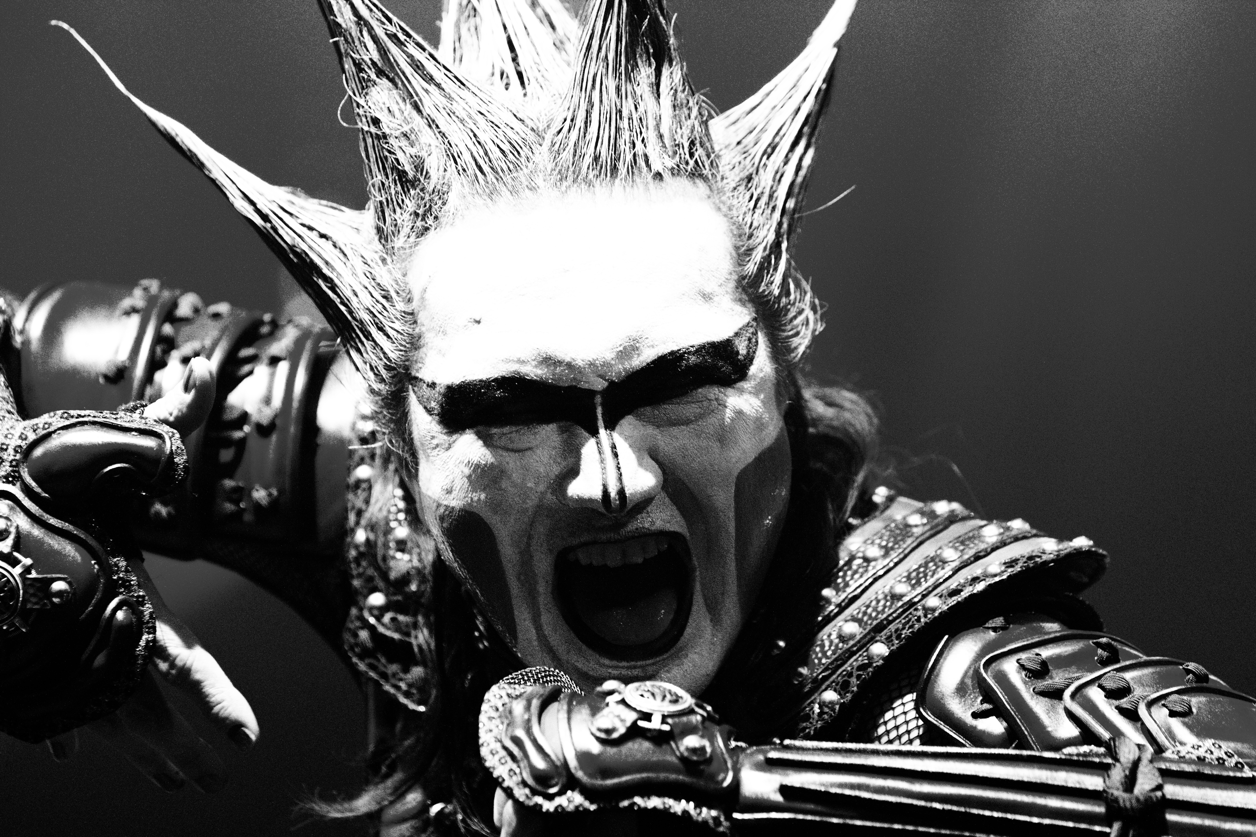 Seikima-II live at Japan Expo 2010 (Paris, France).